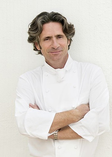 French chef Gérald Passédat, at the restaurant Le Petit Nice in Marseille, France.